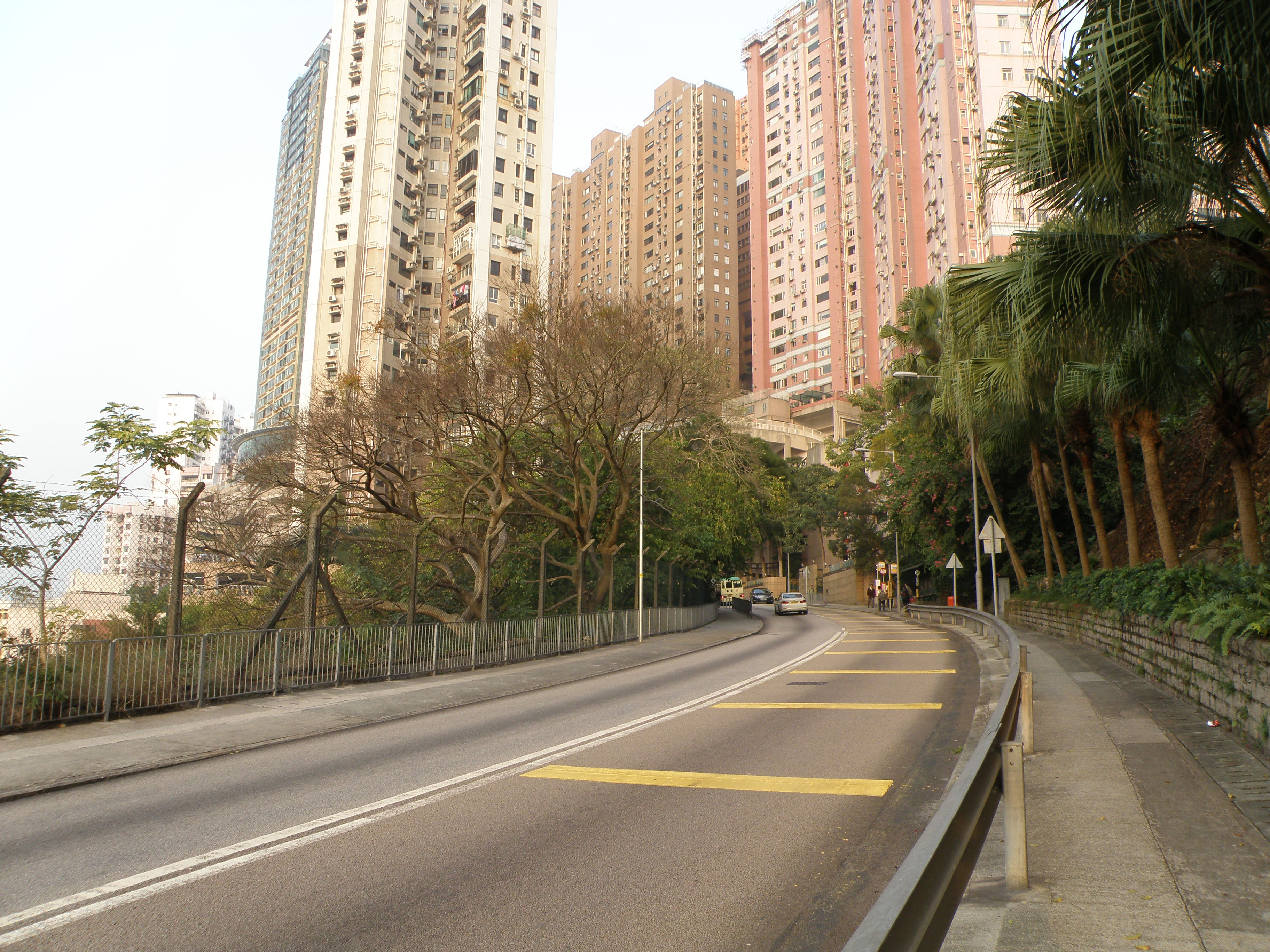 Cloud View Road in Braemar Hill, Hong Kong.